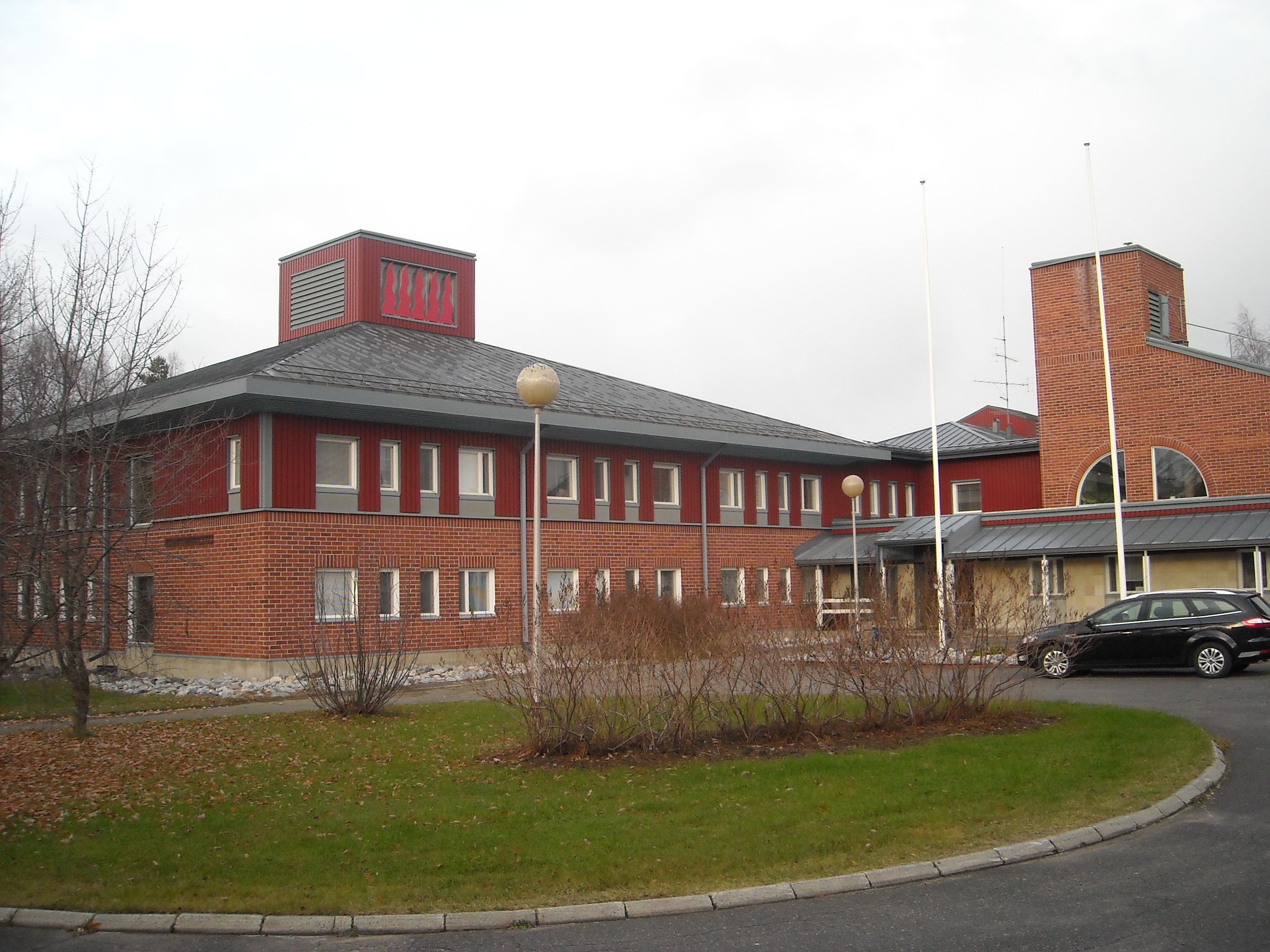 The Kolari municipal hall in Kolari, Finland.